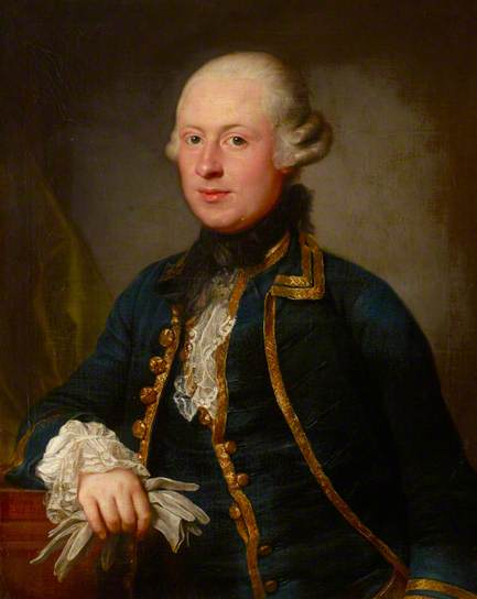 Portrait of Thomas Charles Bigge (1739–1794), English gentleman.